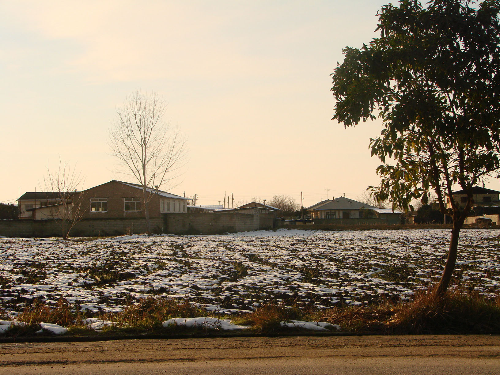 Snow Day in Juybar